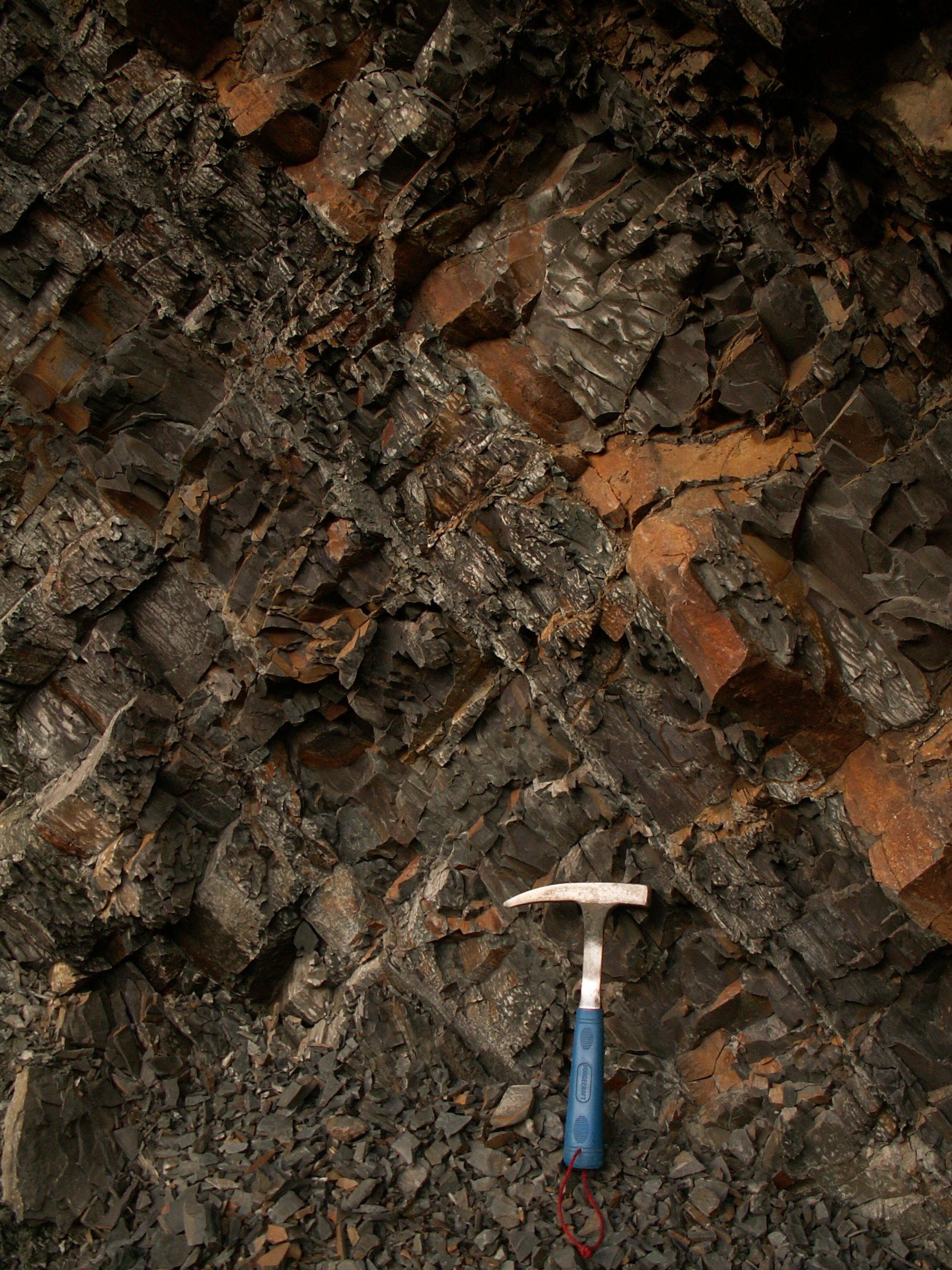 Claystone (mudstone) in the Zlín beds of the Cretaceous-Paleocene age turbiditic flysch deposits of the Western Carpathian Rača Unit. Quarry Bieščari near Veľké Rovné, Slovakia. Pelagic claystones were deposited between the channel deposits in periods of pelagic sedimentation. Geological hammer is 28cm long.